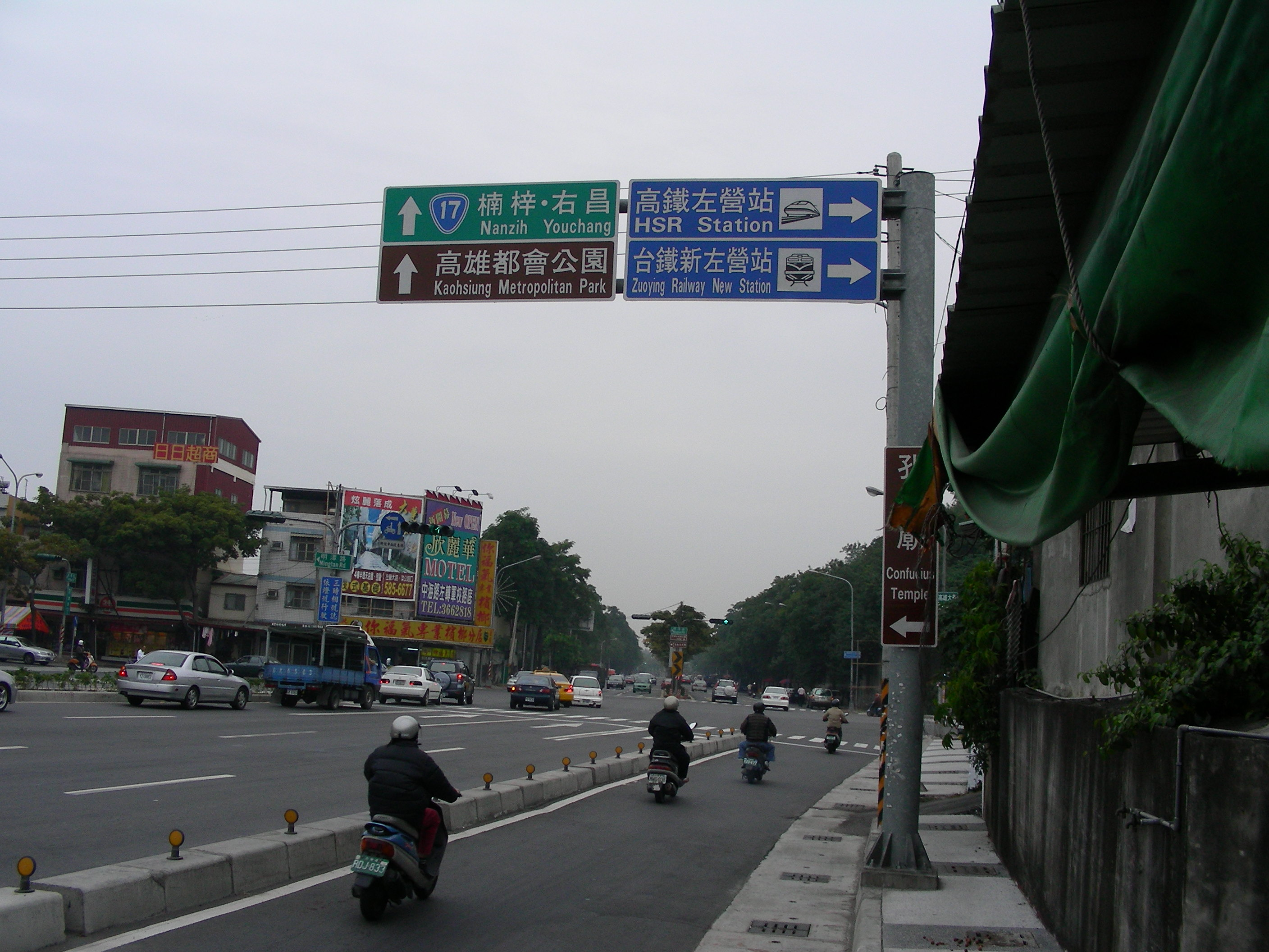 A view is the Highway No.17 at Zuoying Section in Kaohsiung City.